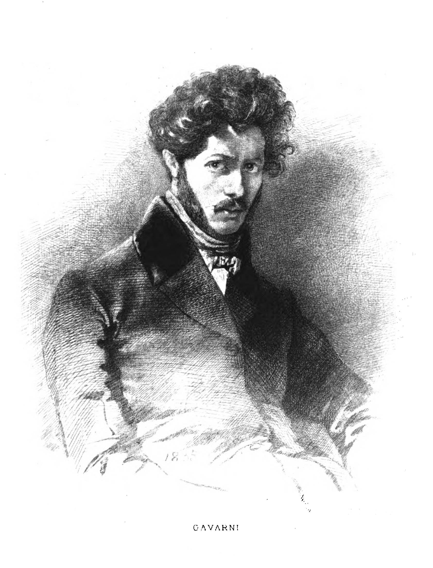 Paul Gavarni was the nom de plume of Sulpice Guillaume Chevalier (13 January 1804, Paris – 24 November 1866), a French caricaturist